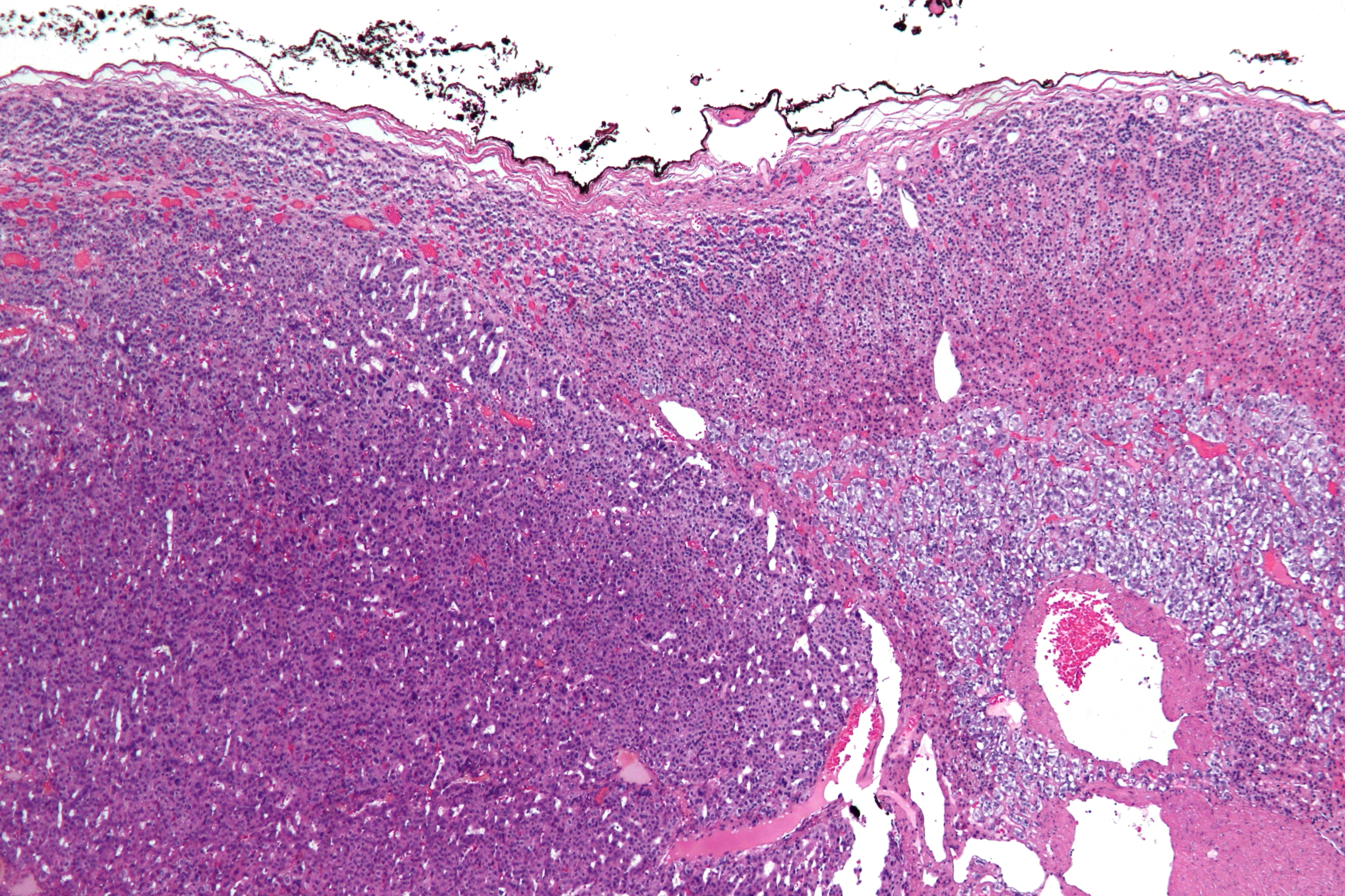 Low magnification micrograph of an adrenal cortical carcinoma, also adrenocortical carcinoma. H&E stain. Related images Very low mag. Low mag. Intermed. mag. High mag. High mag. Very high mag.